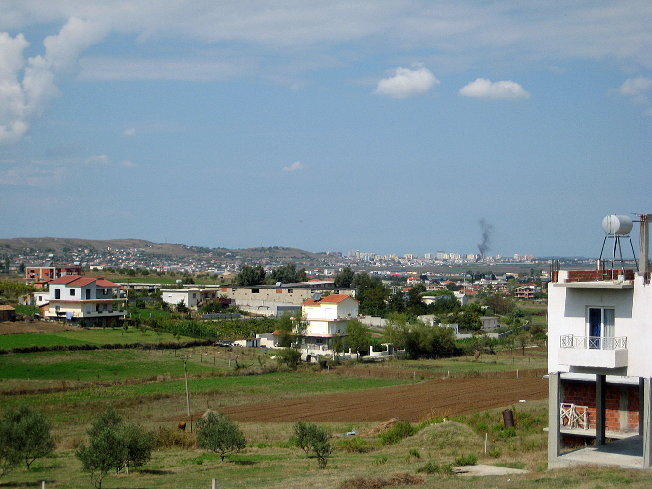 City of Fier in Central Albania seen from Southeast